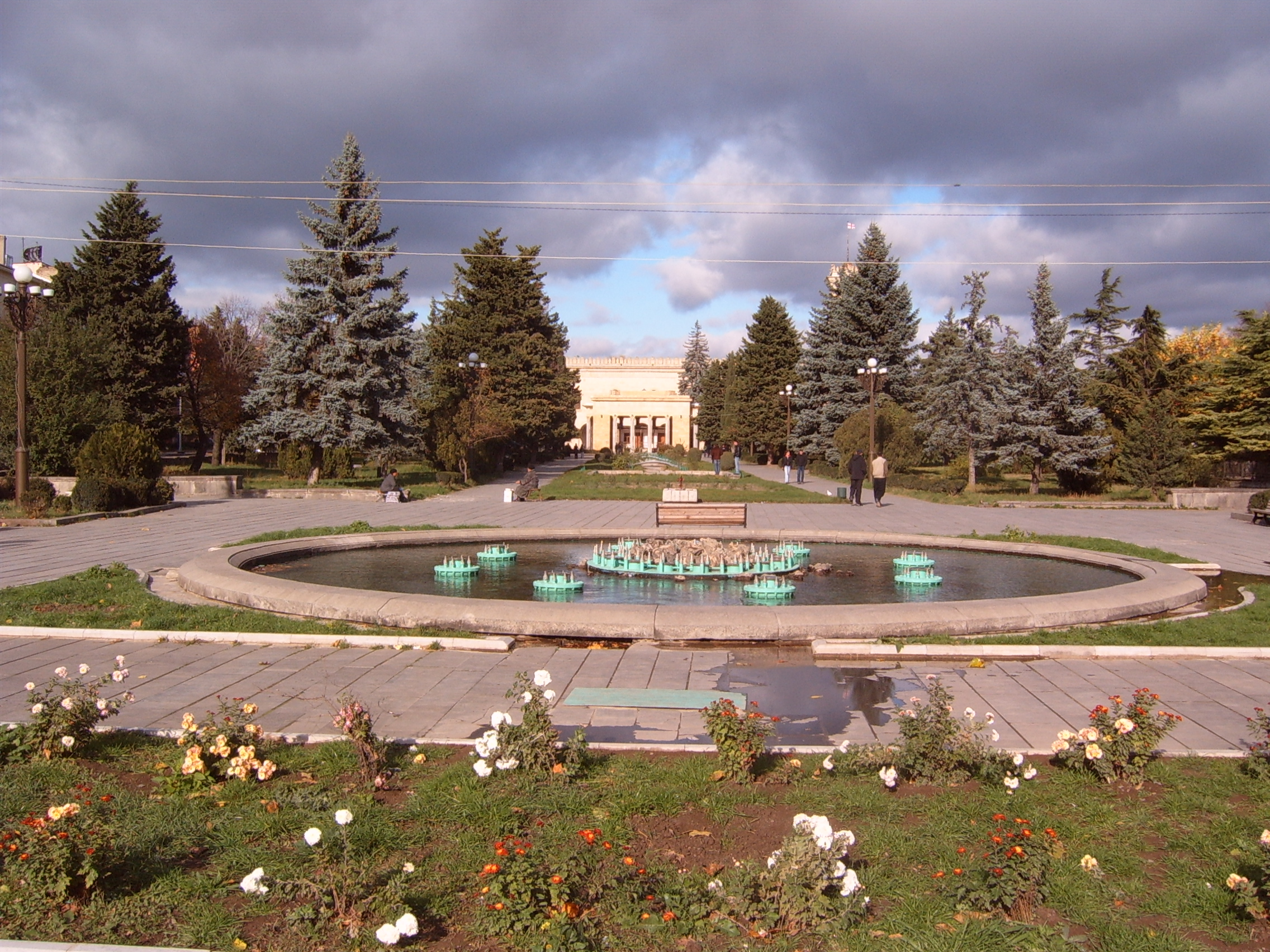 Park in front of Stalin museum Gori, Gerogia